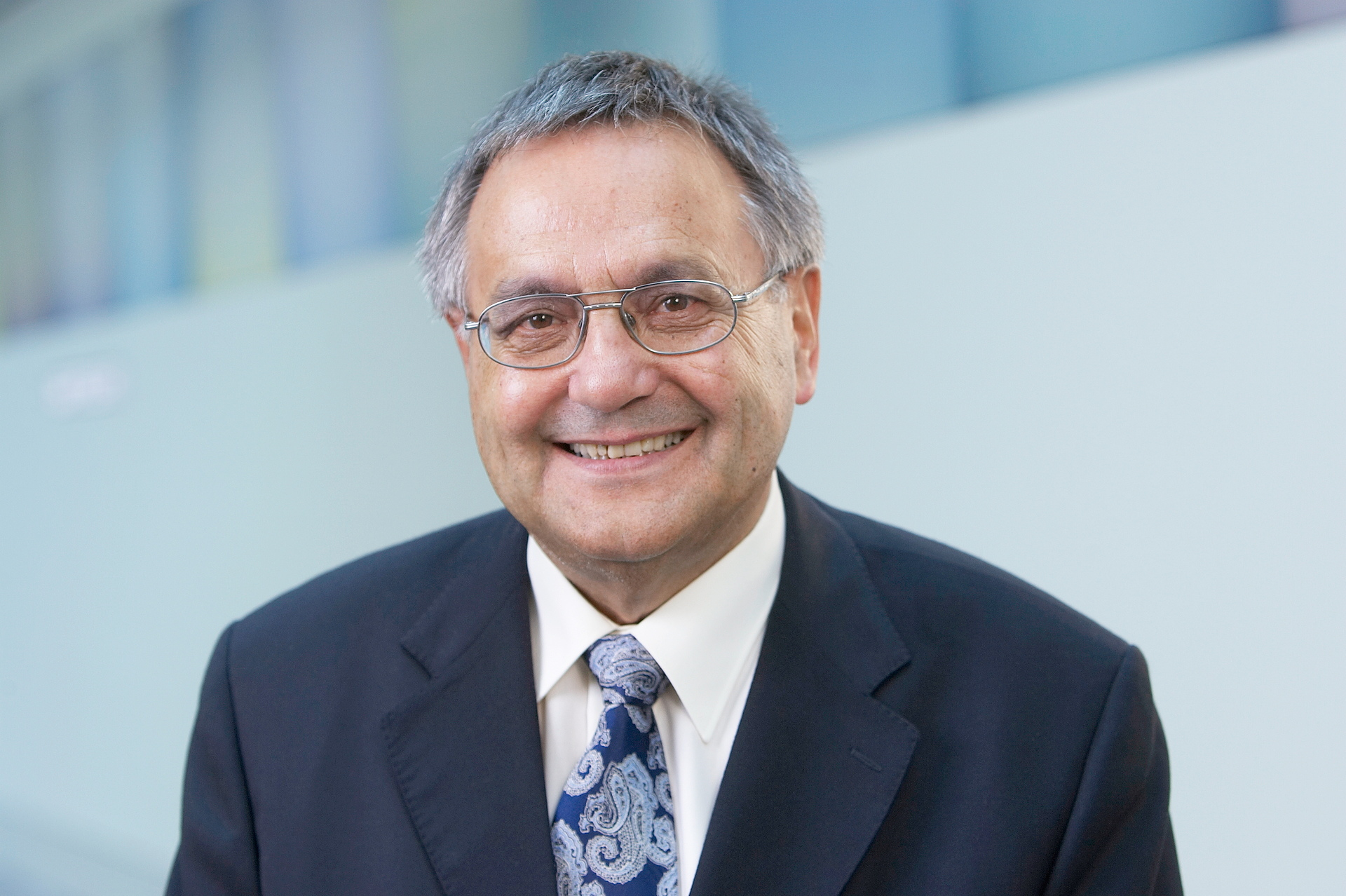 Portrait of Dr. Dumeni Columberg, reduced resolution